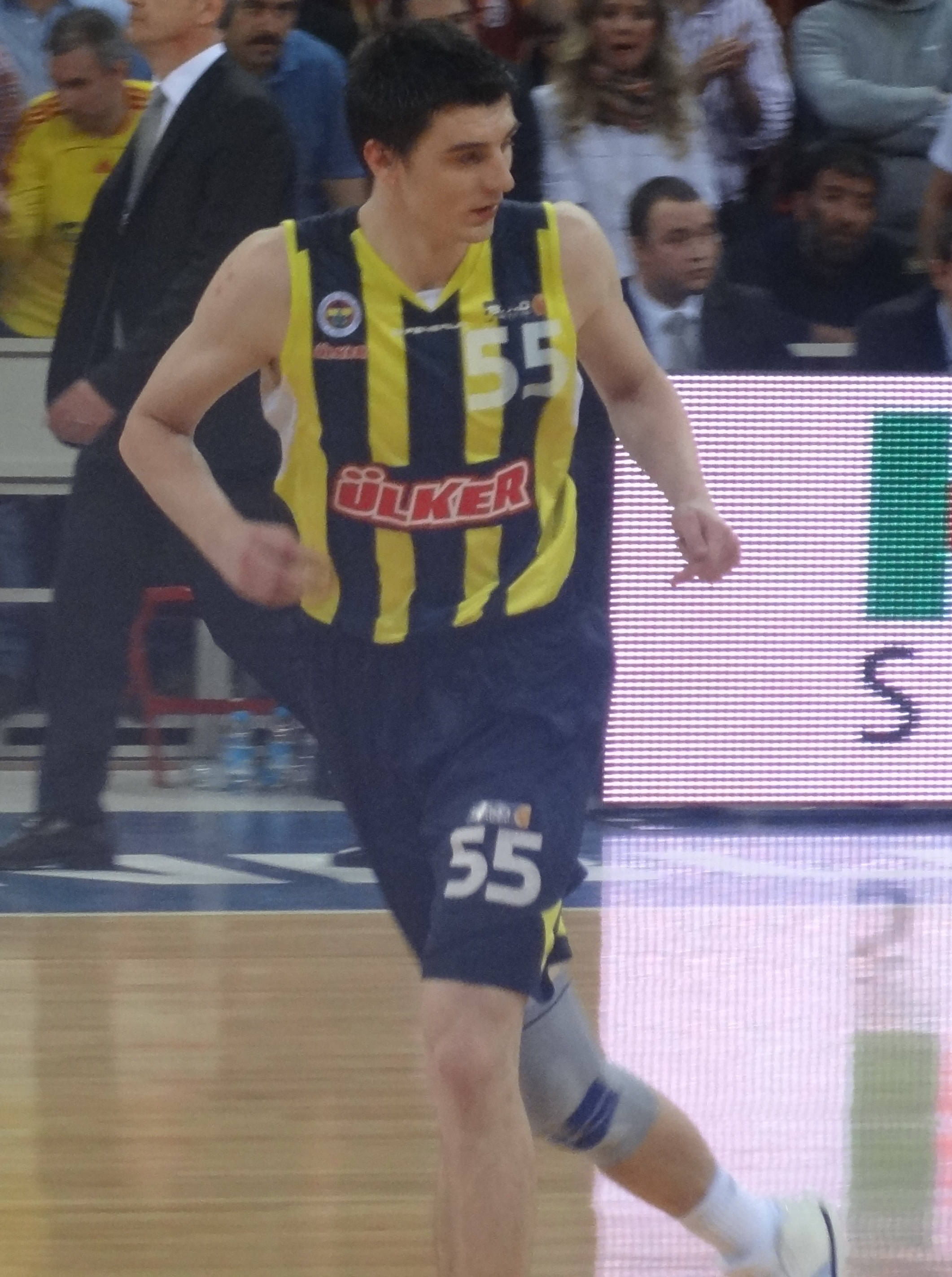 Galatasaray-Fenerbahce match